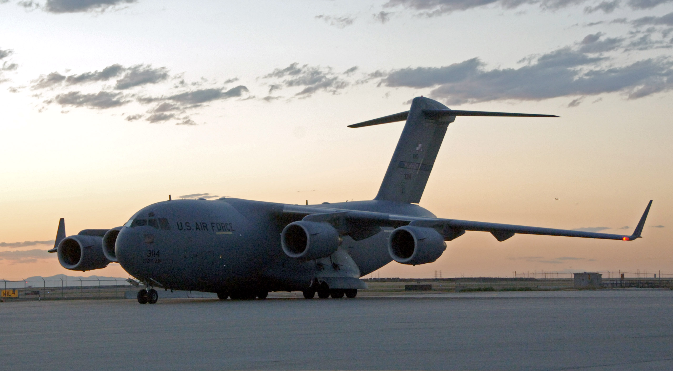 Airmen from the 151st Air Refueling Wing in Salt Lake City assisted in the arrival of a C-17 Globemaster III from the 172nd Airlift Wing of the Mississippi Air National Guard Aug. 9. The C-17 transported equipment used by Substrata Camera Services of Knoxville, Tennessee, from its location in Topeka, Kansas, to assist in rescue operations for six stranded Utah miners. (U.S. Air Force photo/Master Sgt. Burke Baker)